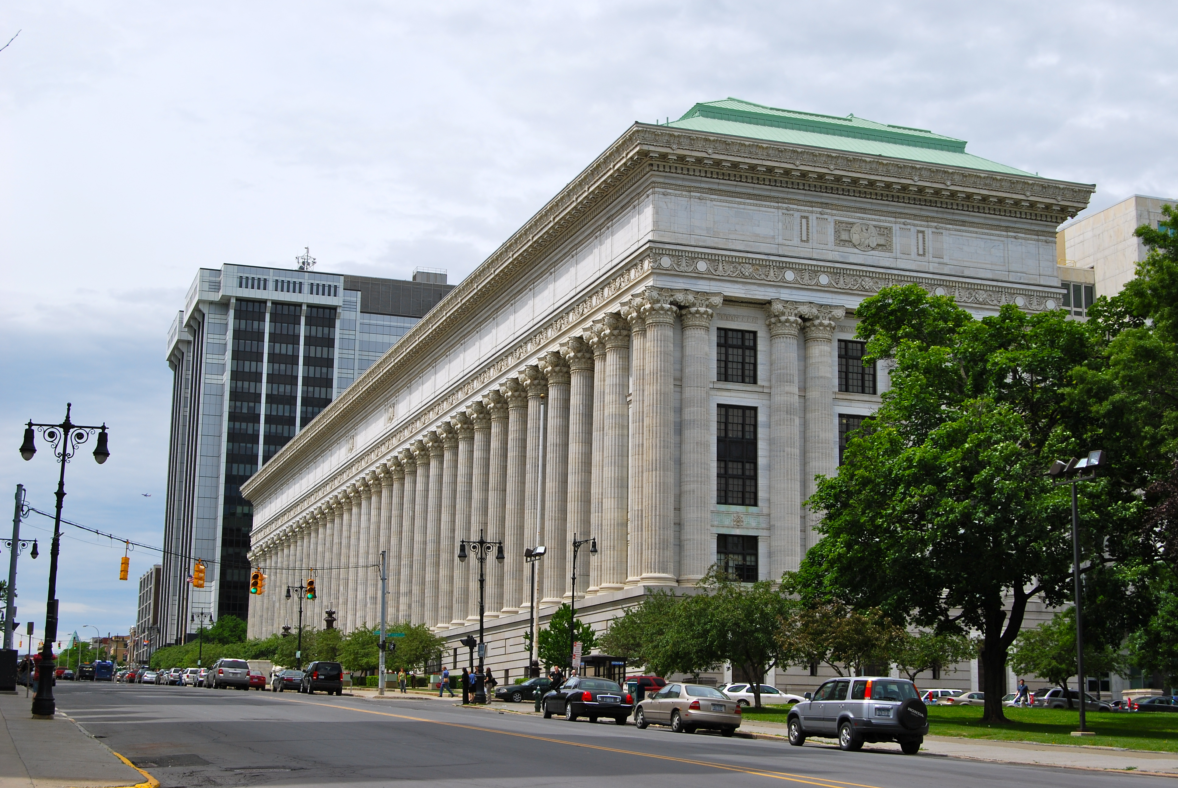 New York State Department of Education Building located in Albany, New York, United States